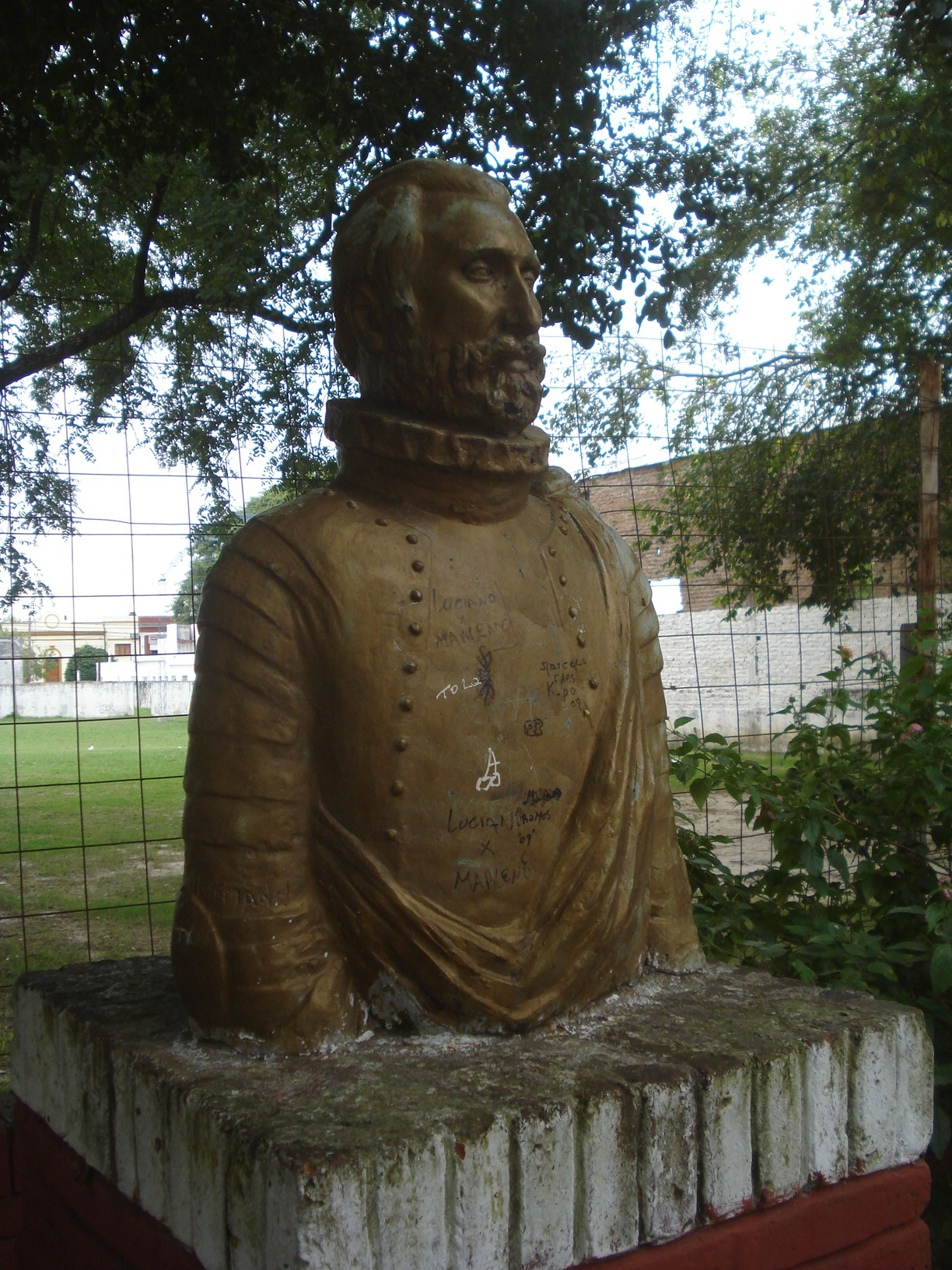 Bust of Hernando Arias de Saavedra, also known as Hernandarias, placed in the town of Villa Hernandarias, Entre Ríos Province, Argentina.